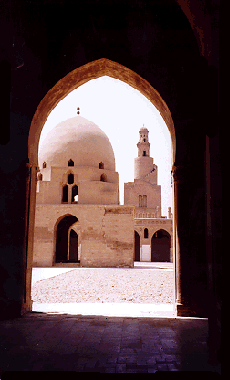 Mosque of Ibn Tulun, Cairo, Egypt (Taken on vacation)